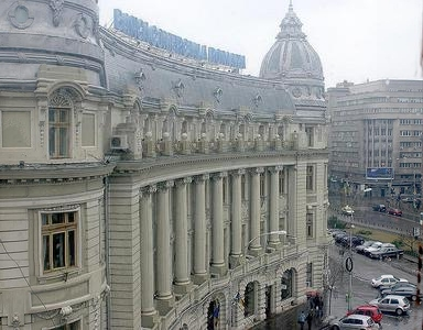 BCR Headquarter in Bucharest.